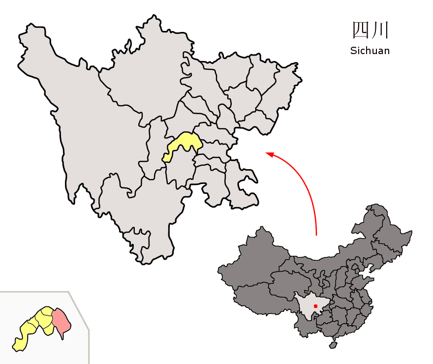 Location of Renshou County (pink) and Meishan Prefecture (yellow) within Sichuan province of China Map drawn in october 2007 using various sources, mainly : Sichuan province administrative regions GIS data: 1:1M, County level, 1990 Sichuan Counties map from